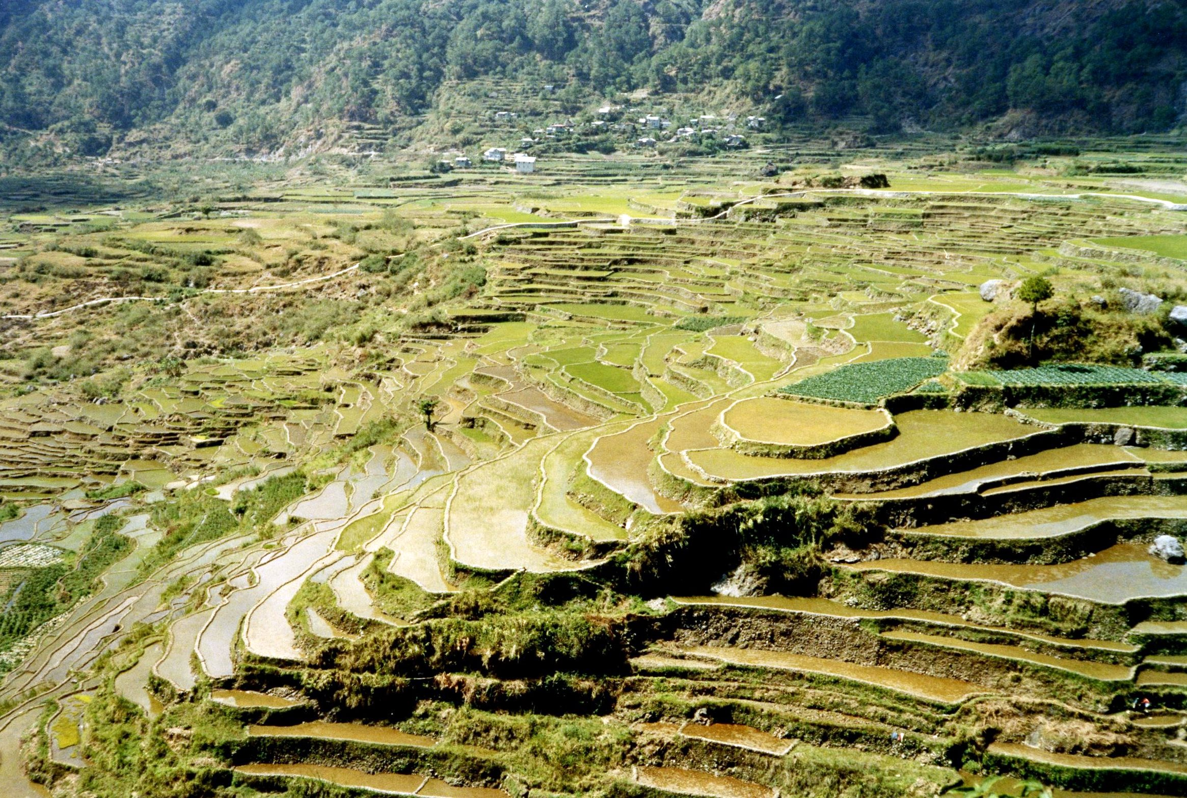 Rice terraces near Sagada, Mountain province, Philippines Filipino: Mga hagdan-hagdang palayan malapit sa Sagada, Lalawigang bulubundukin, Pilipinas